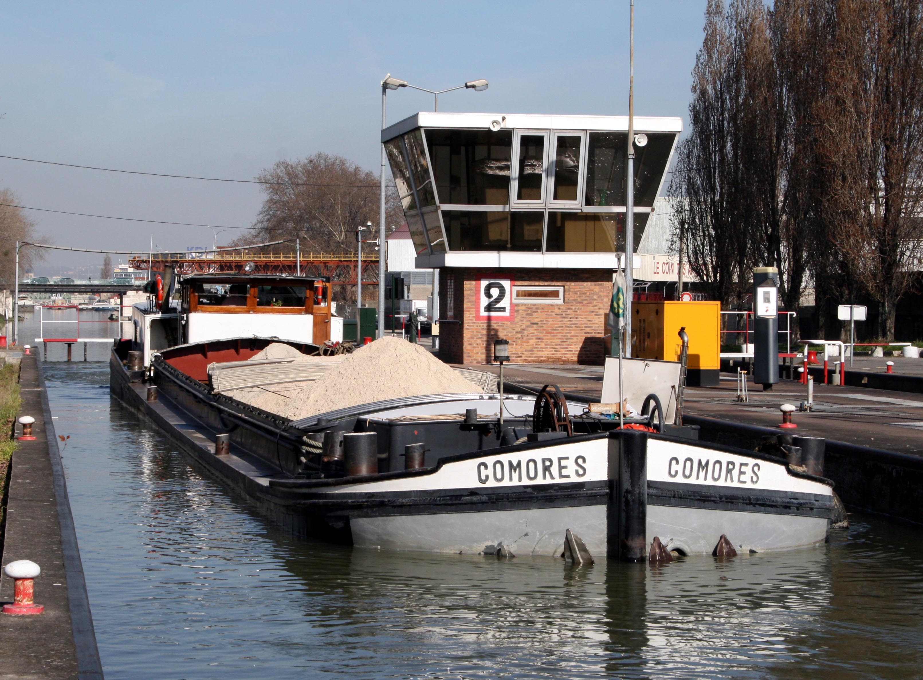 Description =Automoteur sur le canal Saint-Denis Source =Photo taken by Remi Jouan Date =Mars 2007 Author =Remi Jouan